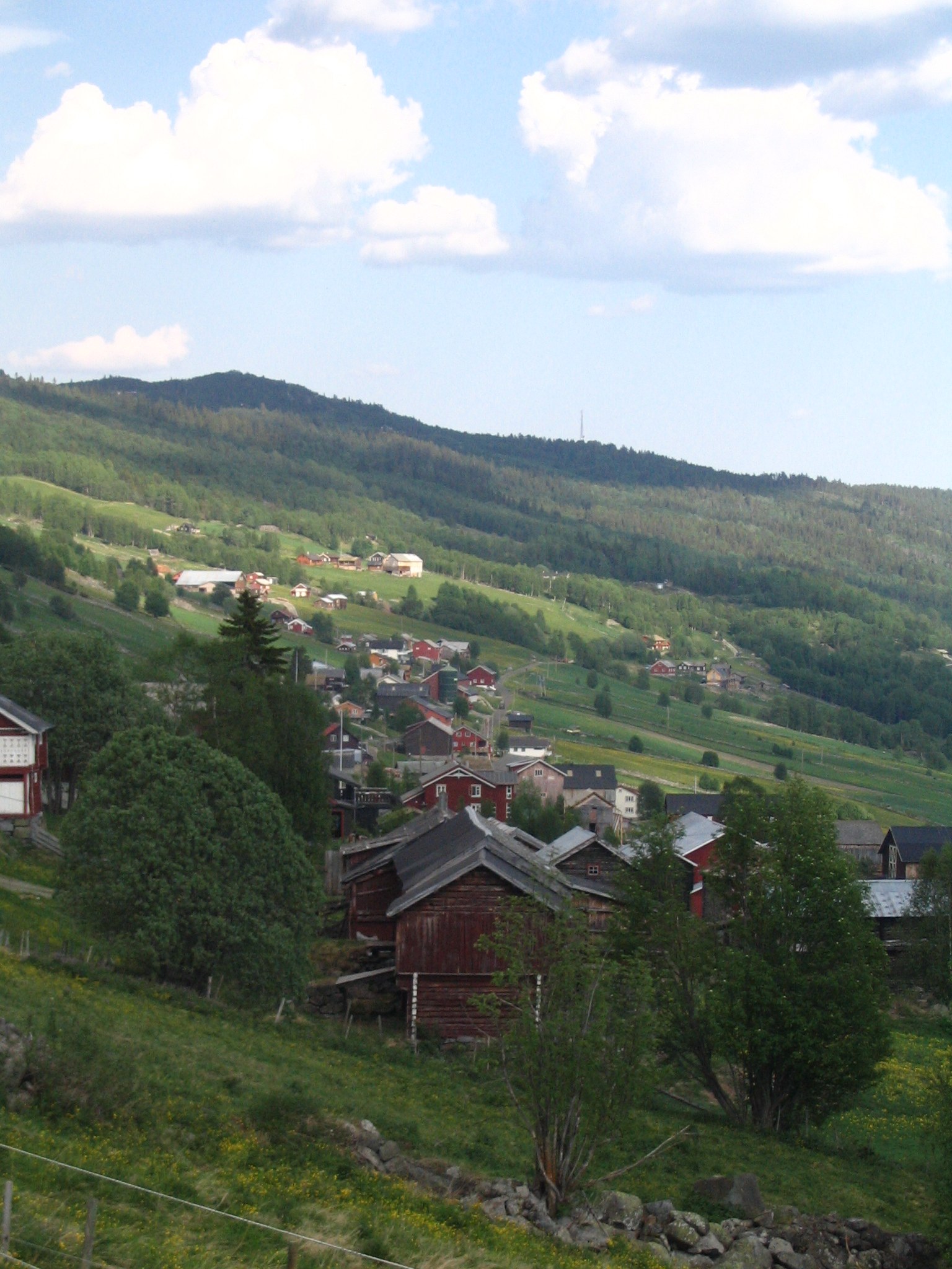 Small farms in the community of Leveld